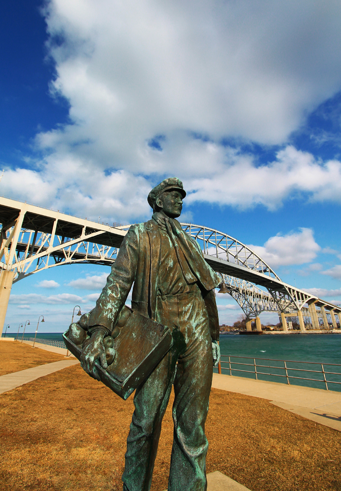 A statue of a young Thomas Edison in front of the Blue Water Bridge, Port Huron, Michigan.